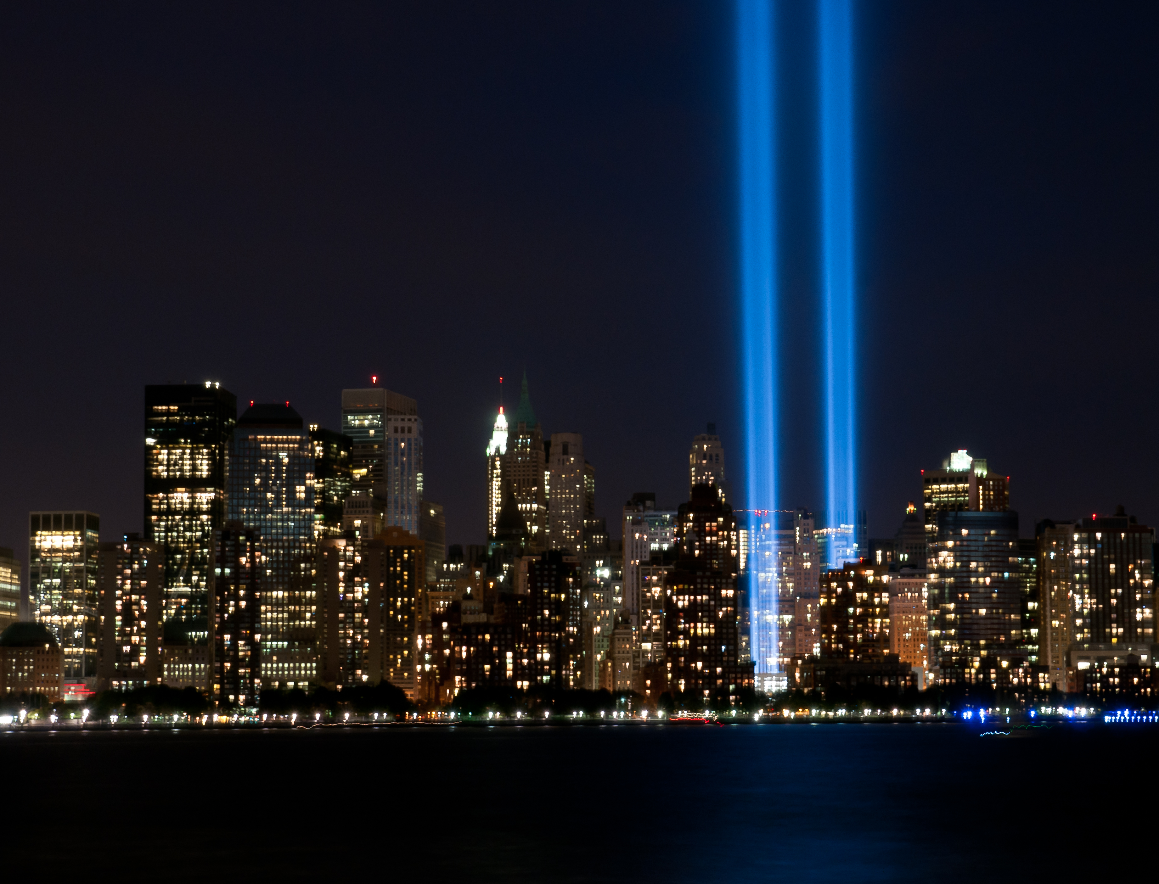 Tribute in Light, September 11, 2010.